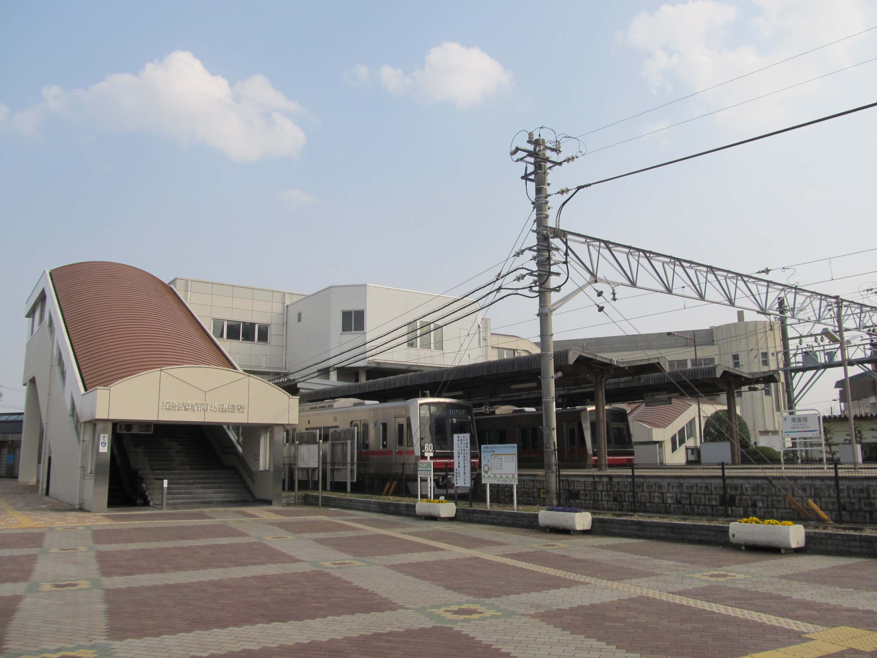 Nagoya Railroad Seto Line Owari Asahi Station Building